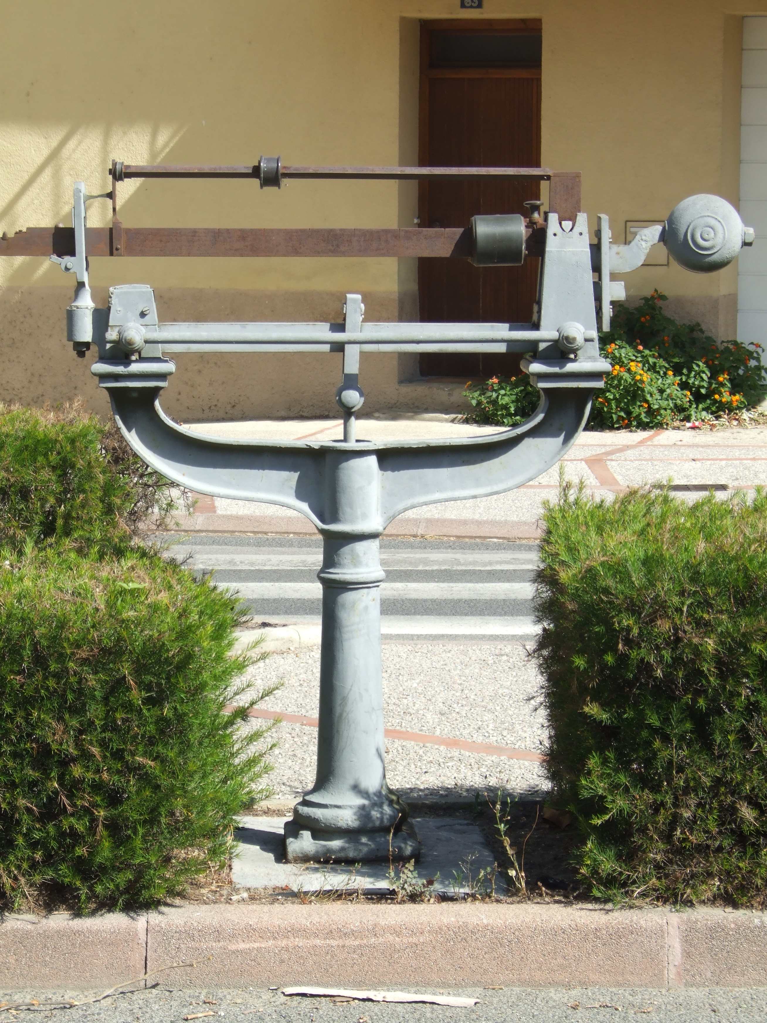 Public weight scale no more on duty as ornamental element at Néfiach (France)